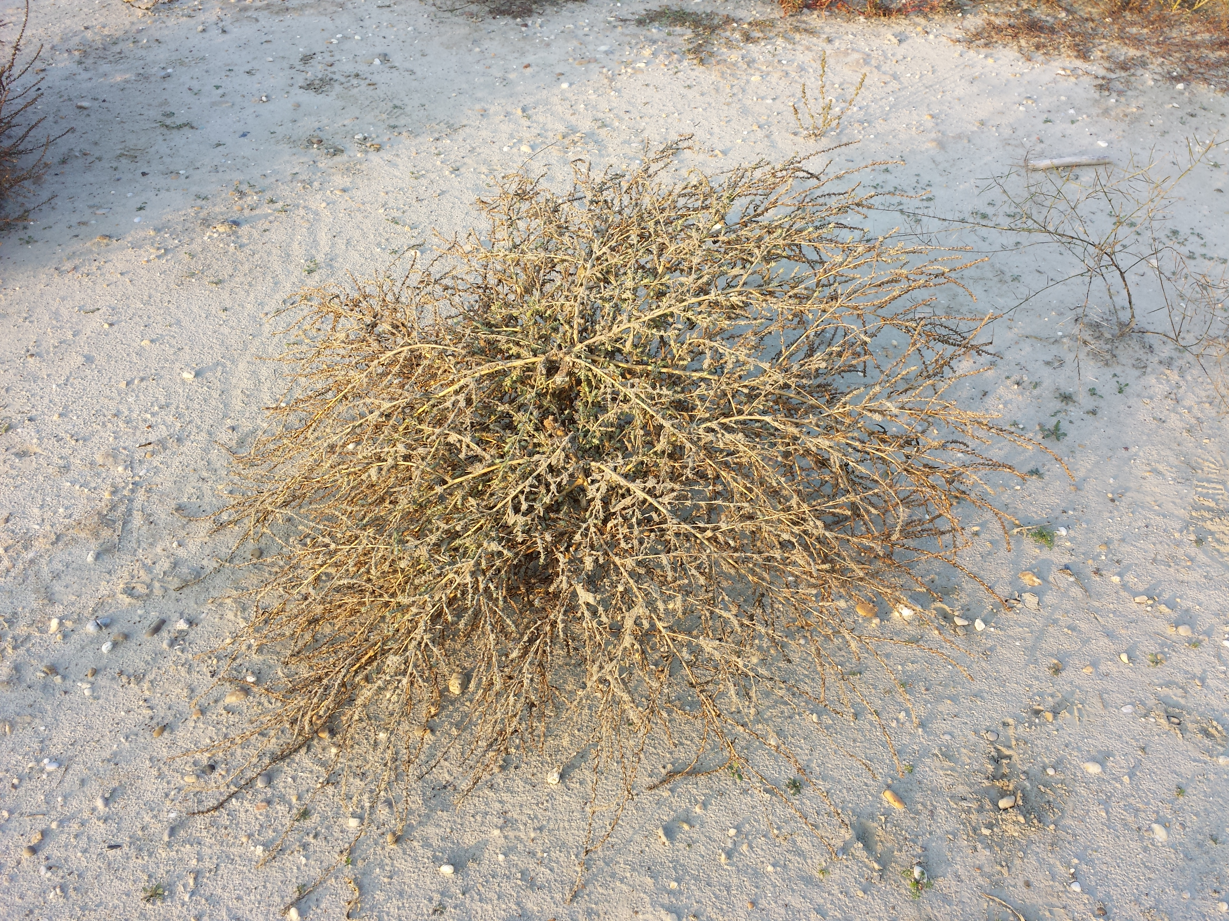 Habitus as tumbleweed Taxon: Bassia scoparia (sensu Fischer et al. EfÖLS 2008 ISBN 978-3-85474-187-9) Location: Neue Donau, Vienna-Floridsdorf - ca. 160 m a.s.l. Habitat: sandy ruderal area